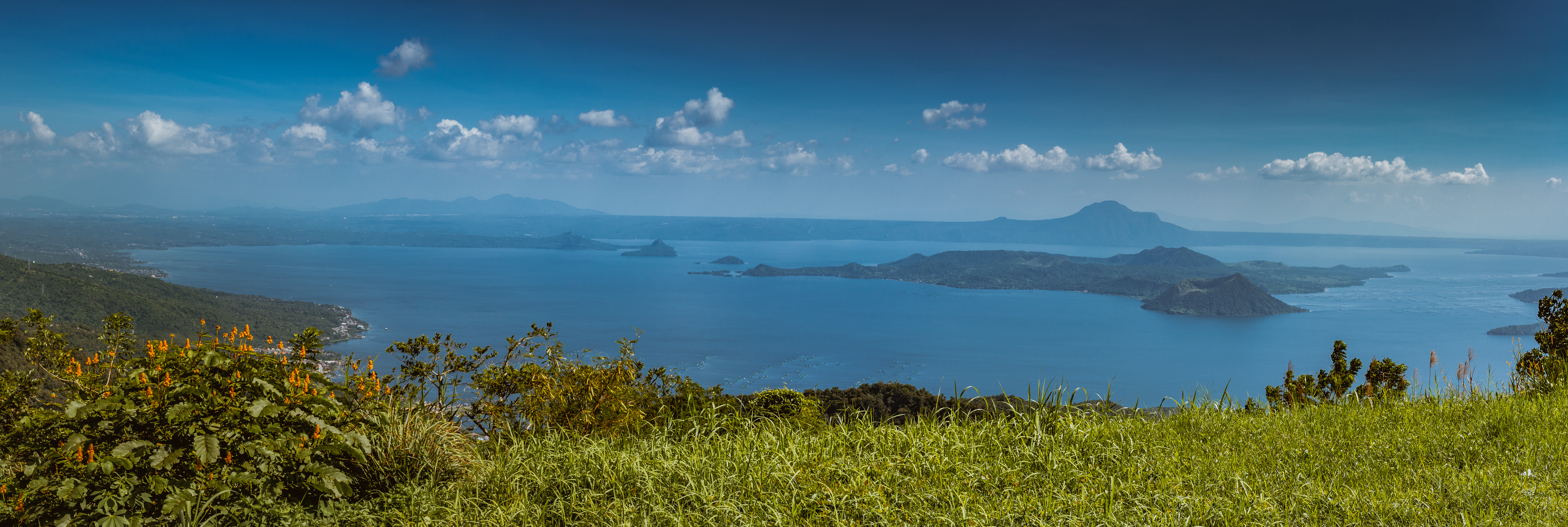 Panorama shot of the Taal lake and volcano from the Josephine Restaurant in Tagaytay.